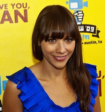 Rashida Jones at the Austin, TX premiere of I Love You, Man